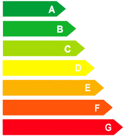 Energy Performance Certificate to the performance of buildings.